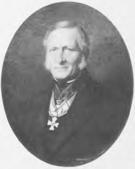 Albert Philibert Freiherr von Schrenck